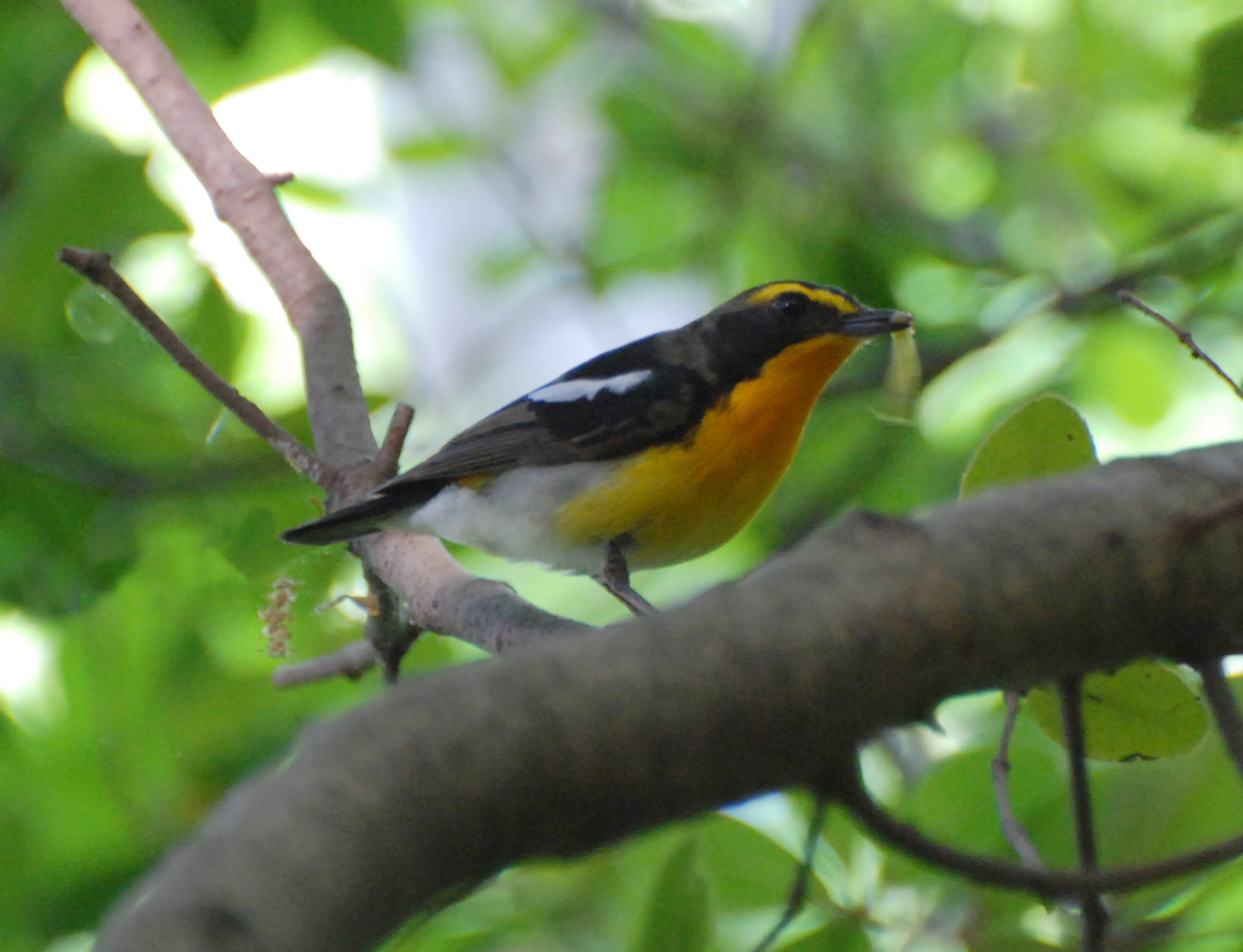 Narcissus Flycatcher (Ficedula narcissina) in Osaka, Japan. Cropped version.